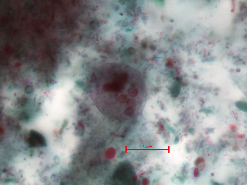 Entamoeba histolytica quadrinucleate cyst with chromatoid bodies. The nucleus looks like a "ring and dot" - peripheral chromatin and central karyosome.